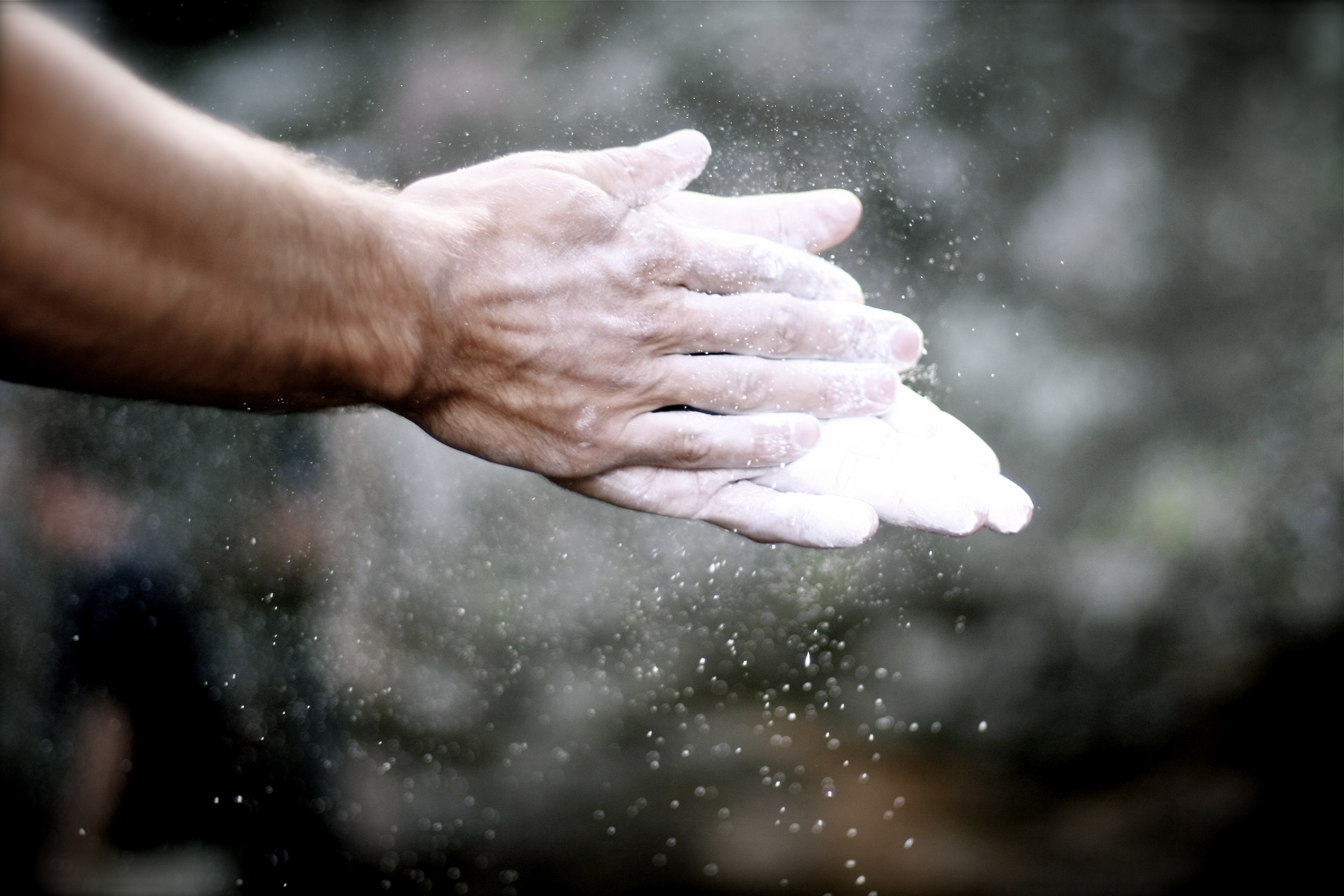 A climber covers the palms of his hands in chalk before ascending.